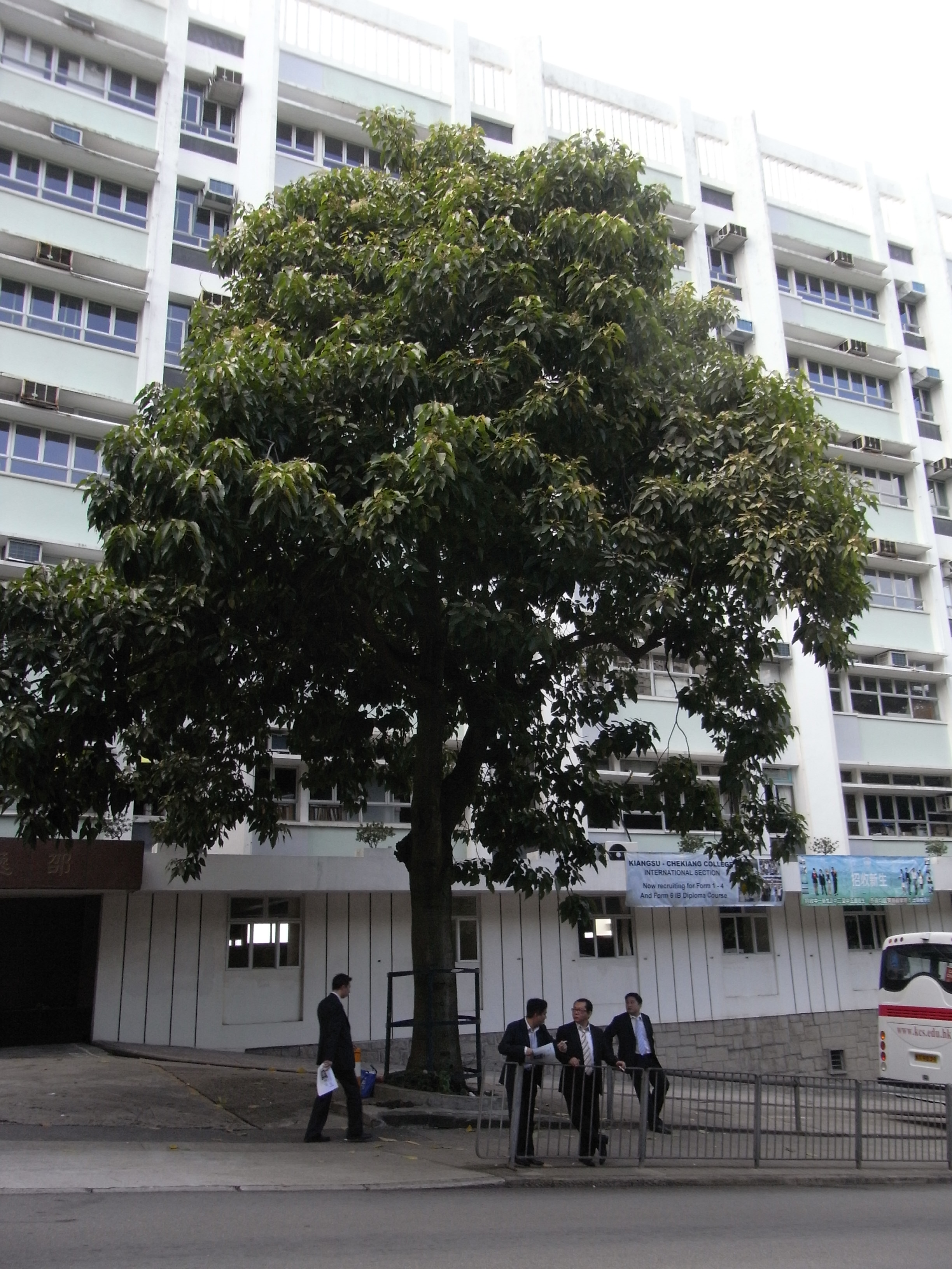 zh:2010年8月東區寶馬山 寶馬山道 蘇浙公學